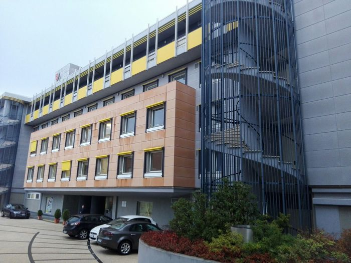 Molise Offices